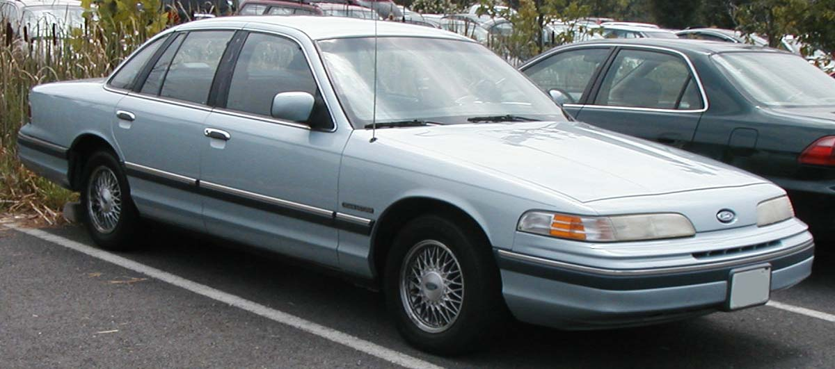 1992 Ford Crown Victoria photographed in USA.